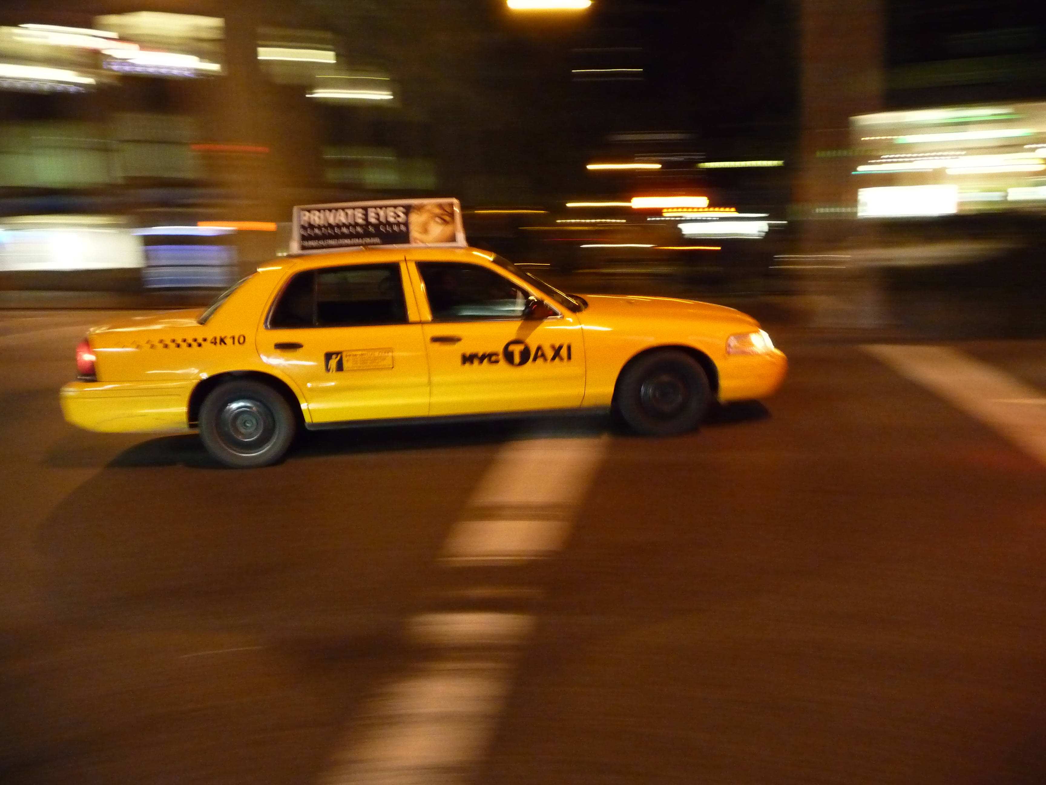 New York City Taxi: Yellow Cab